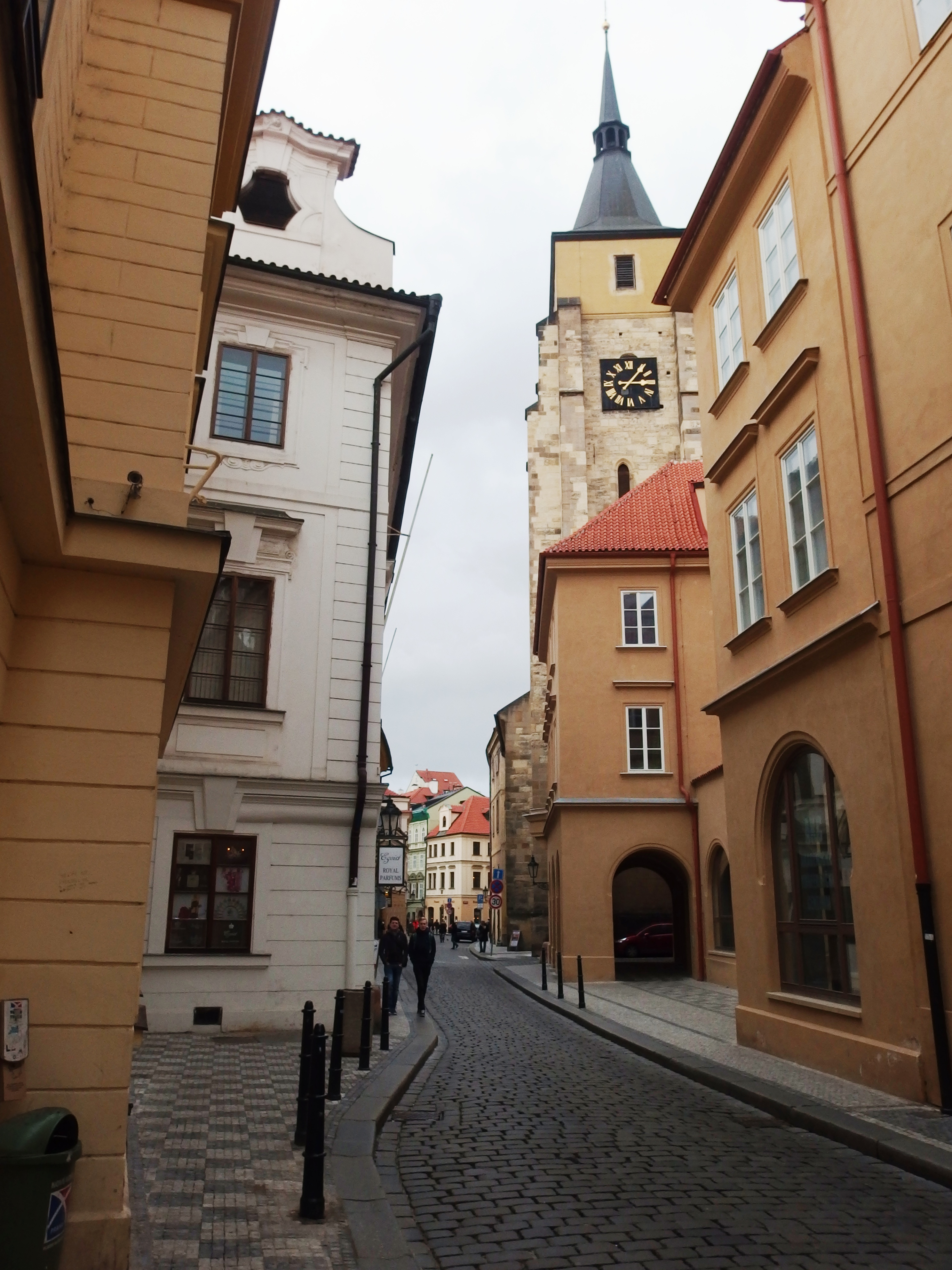 Prague, Husova street.